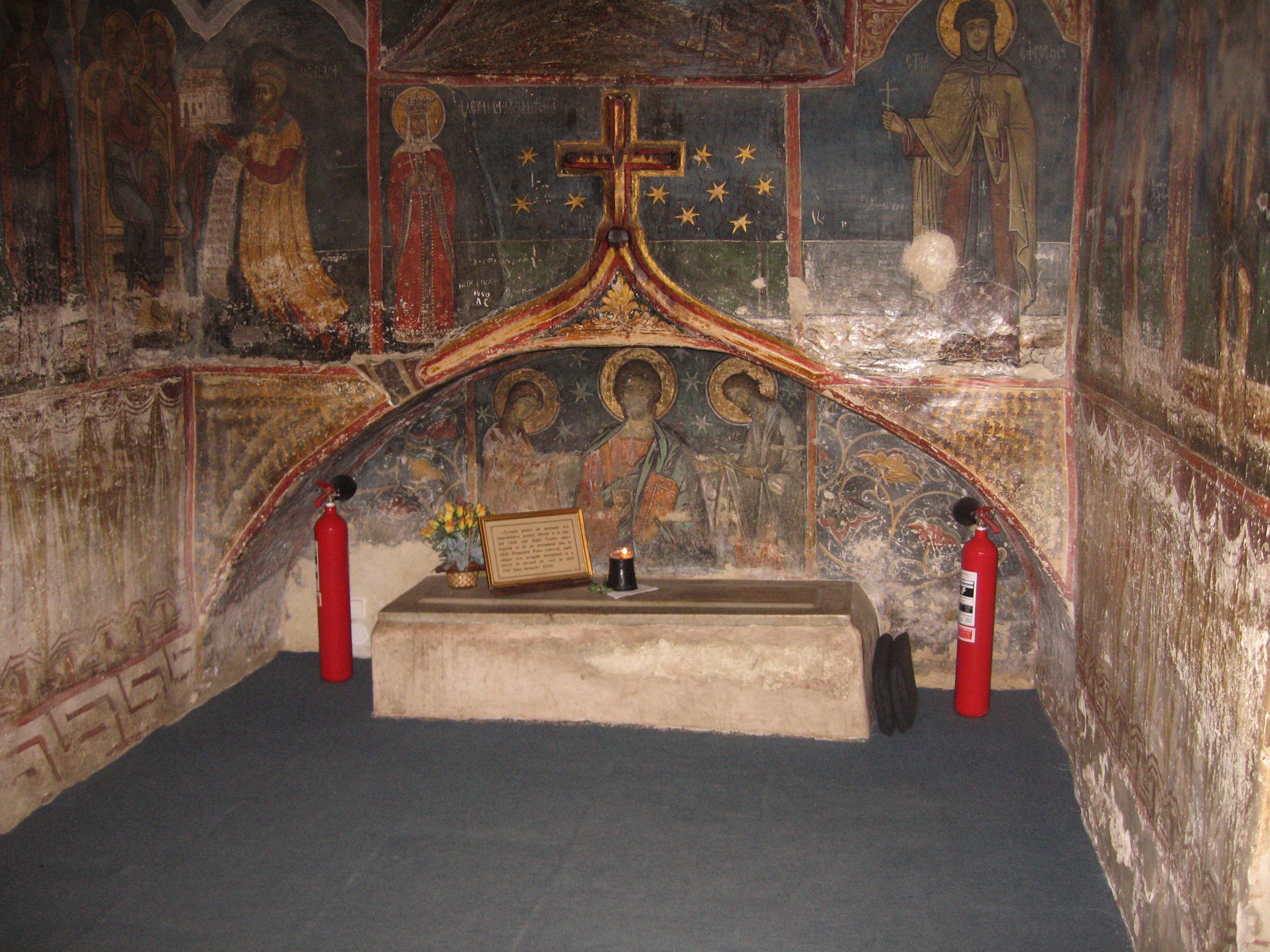 Humor Monastery